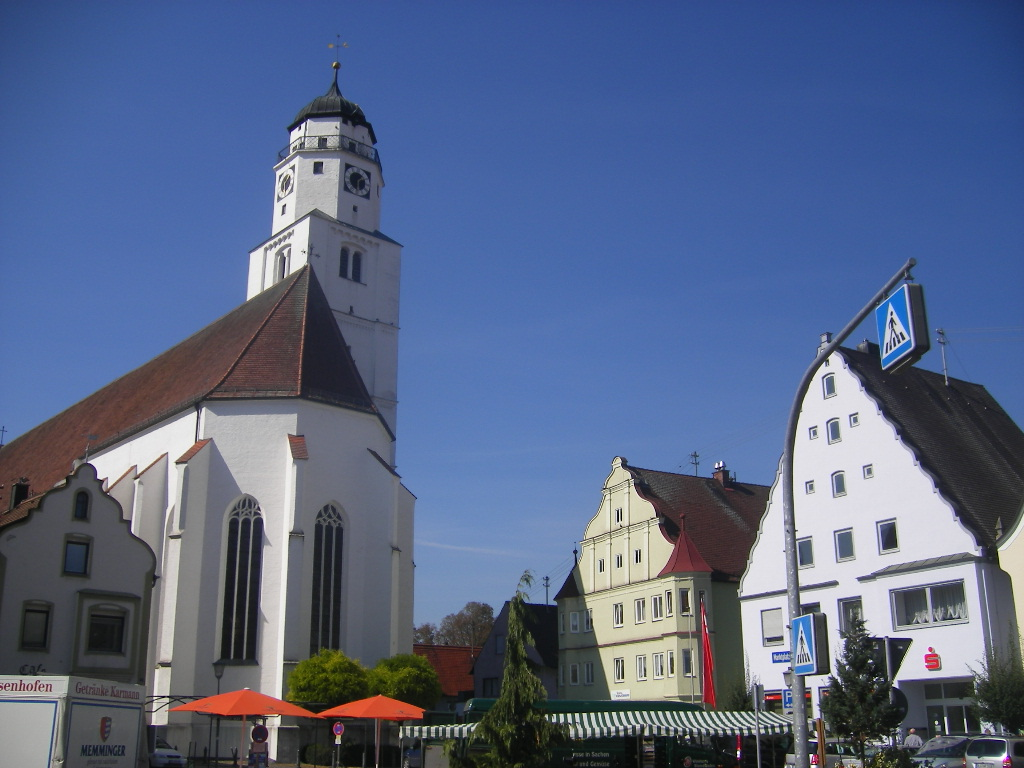 Höchstädt an der Donau, market square and Parish Church of the Assumption.